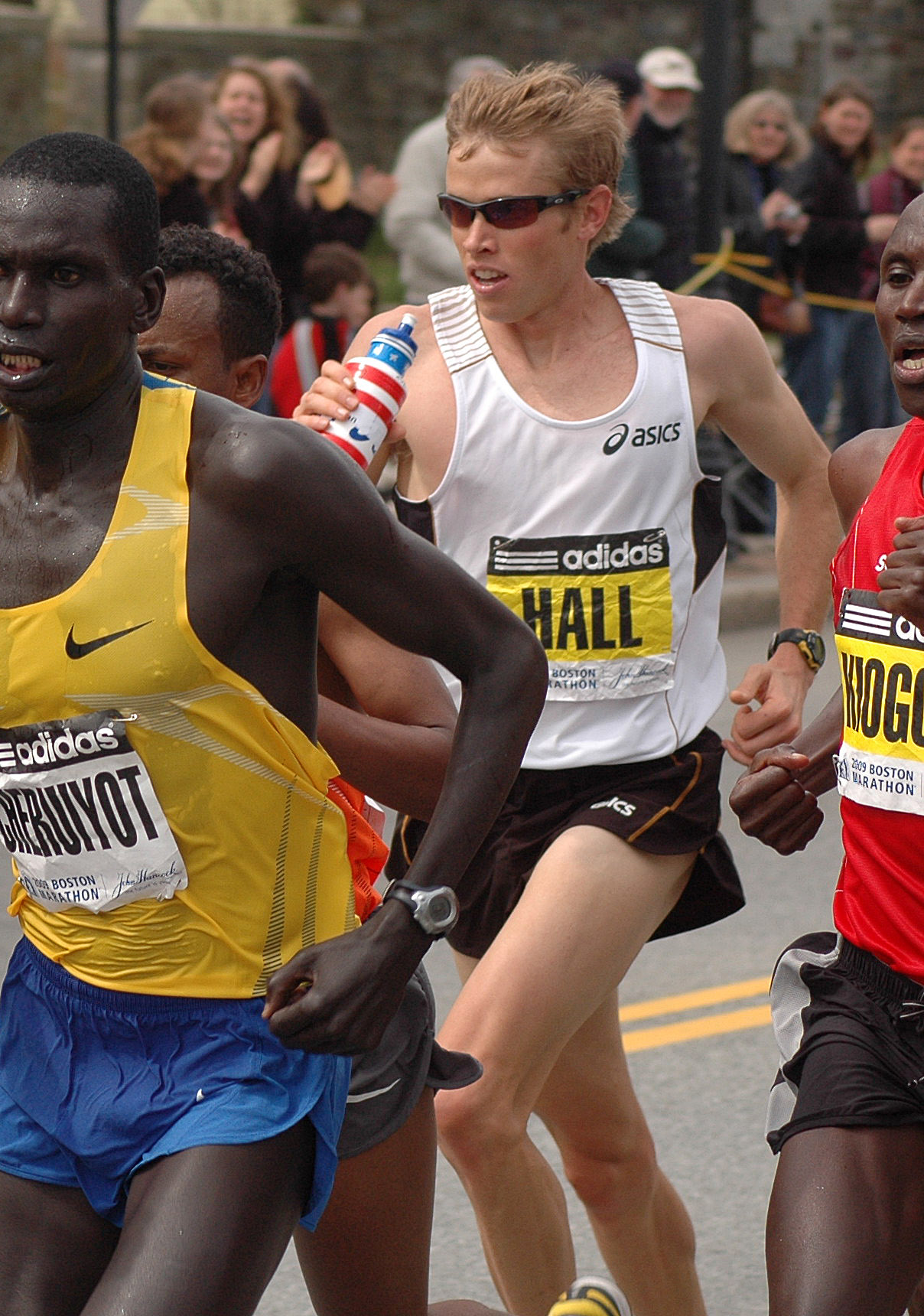 Ryan Hall near half way point of 2009 Boston Marathon where he placed third. People in front of Wellesley College entrance in background. Robert Cheruiyot who won the marathon the previous 3 years can be seen to the left.